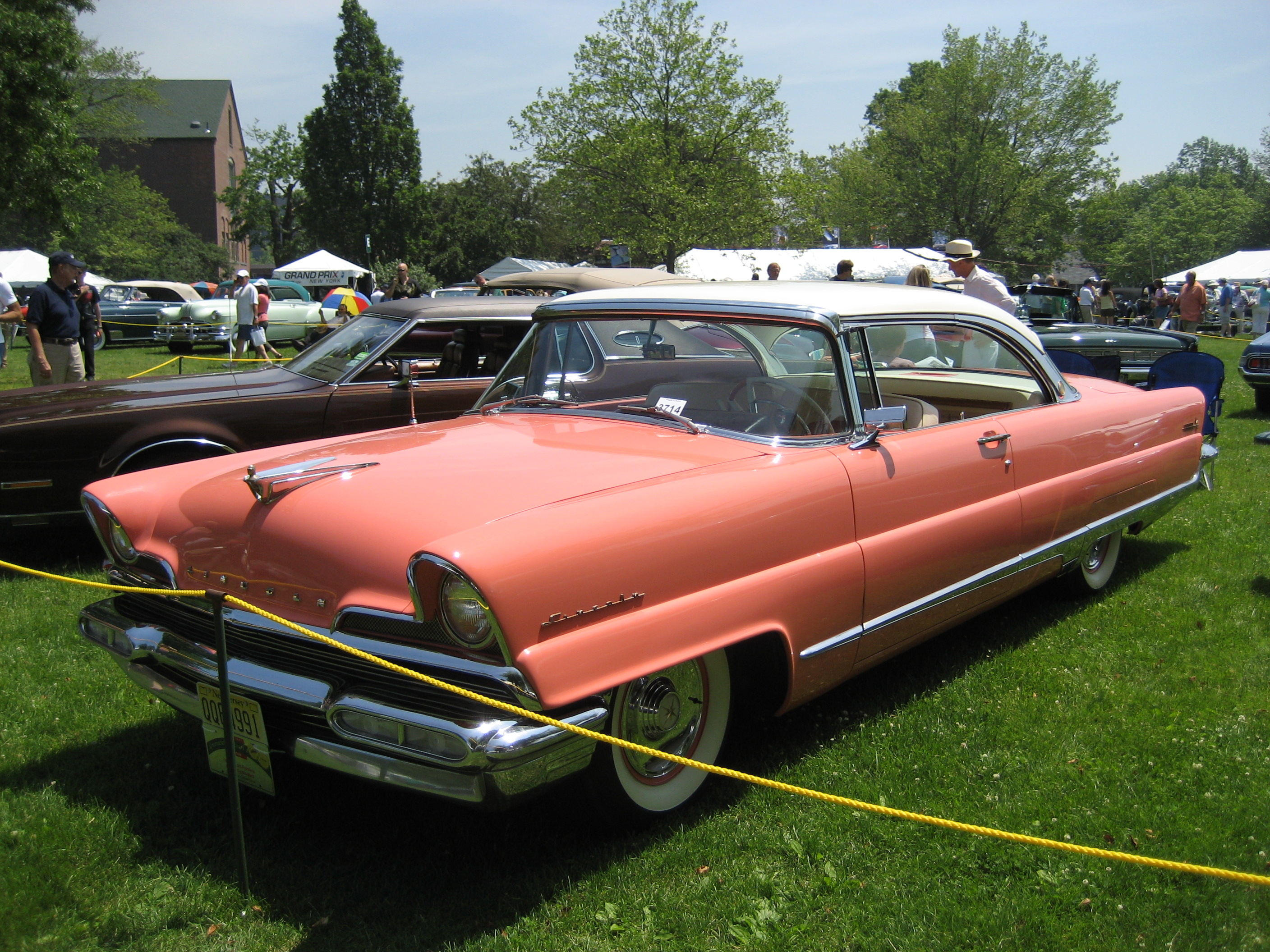 1956 Lincoln Premiere coupe photographed at the 2008 Greenwich Concours d'Elegance in Greenwich, Connecticut.